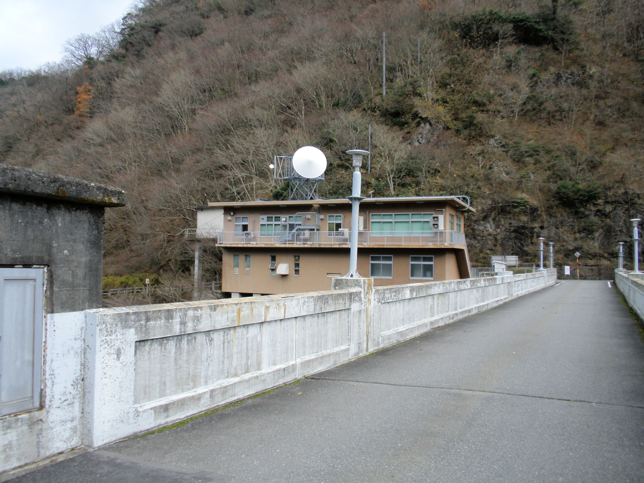 Yubara Dam maintenance office and Okayama prefectural road No.322.